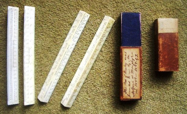 Photo taken 2009 by submitter Duncanogi (talk) 11:08, 6 June 2009 (UTC). Engineer's scales presented to George Turnbull in Monghyr, India 1857. The leather case has the black-ink inscription: "This Box of Scales was presented to me by Mr Metford at Monghyr in 1856 or 1857. G. T." The triangular scales are engraved: "METFORD'S ENGINEERS POCKET SCALES" and "THOs D KING BRISTOL"